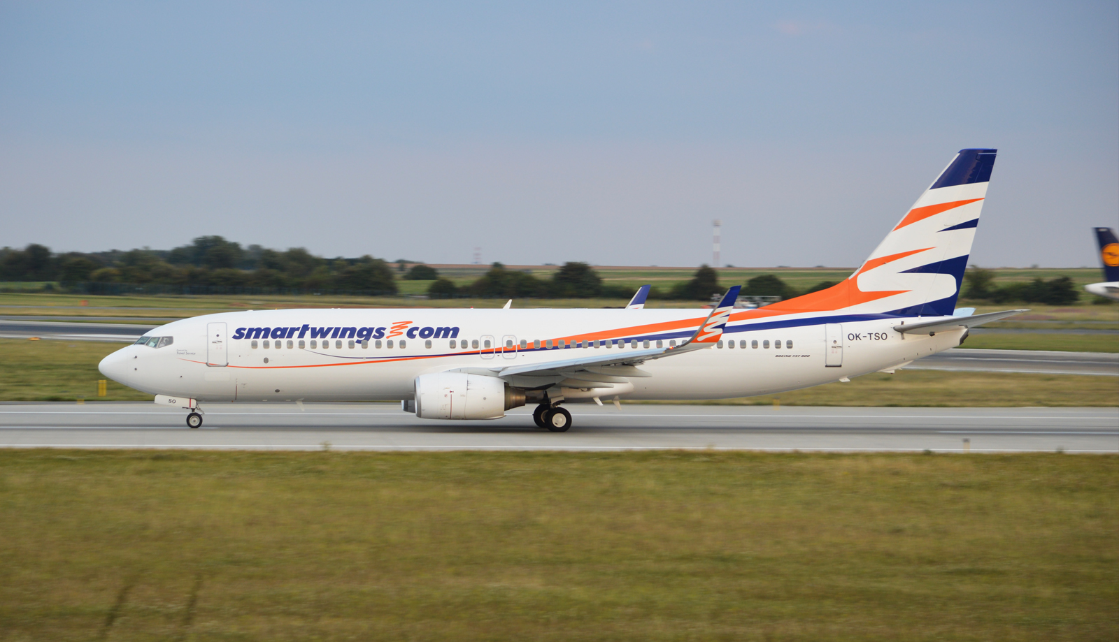 Travel Service OK-TSO in Smart Wings livery on take off at Prague